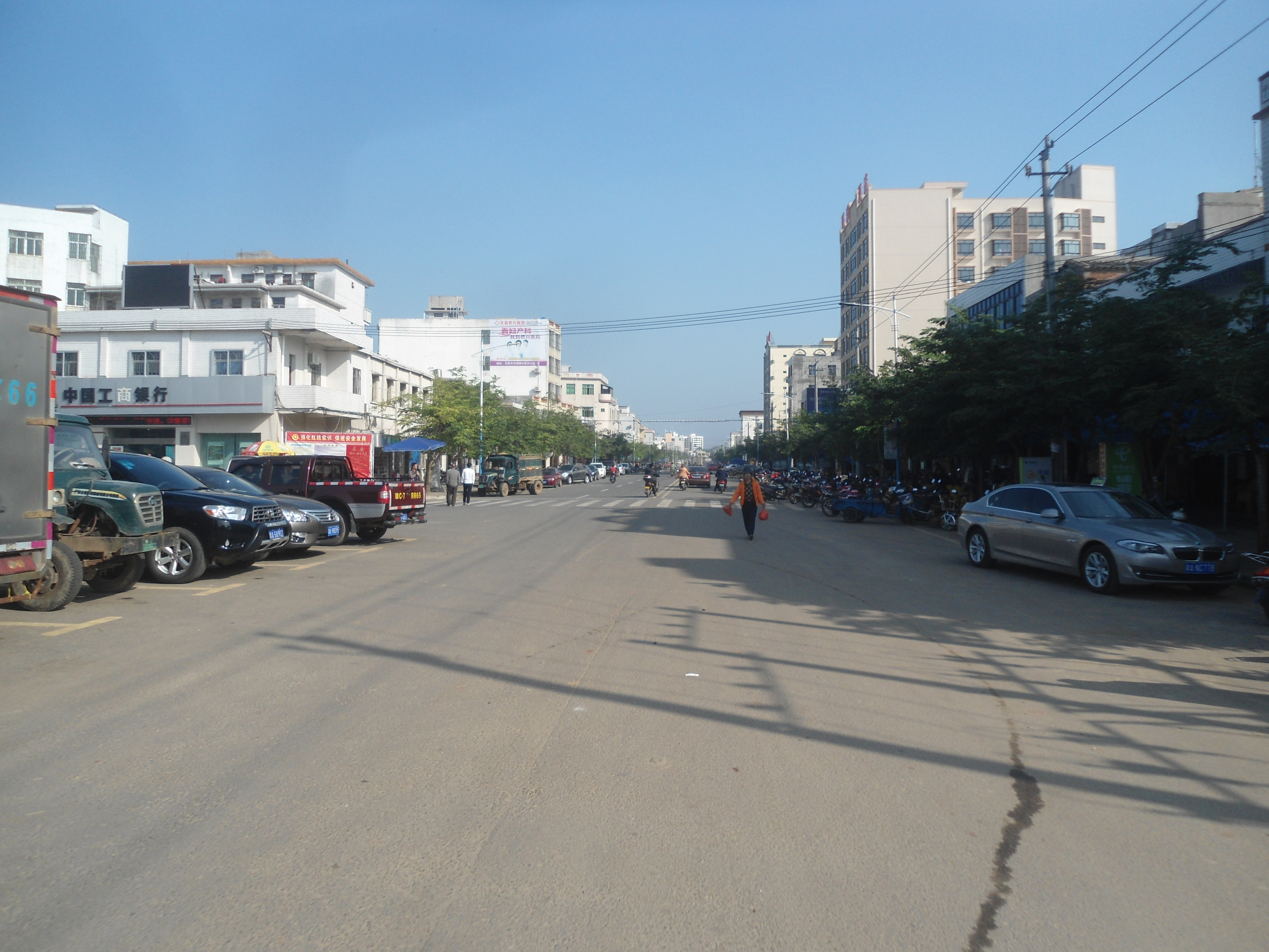 Puqian